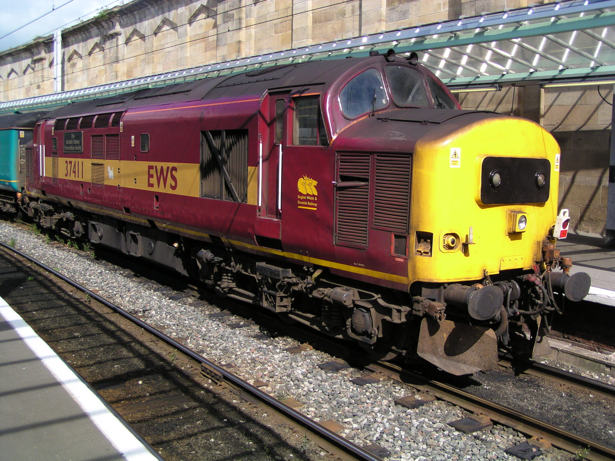 British Rail Class 37/4, no. 37411 "The Scottish Railway Preservation Society" at Carlisle on 27th August 2004. At the time this EWS-owned locomotive was hired to Arriva Trains Northern for services over the Settle-Carlisle line.